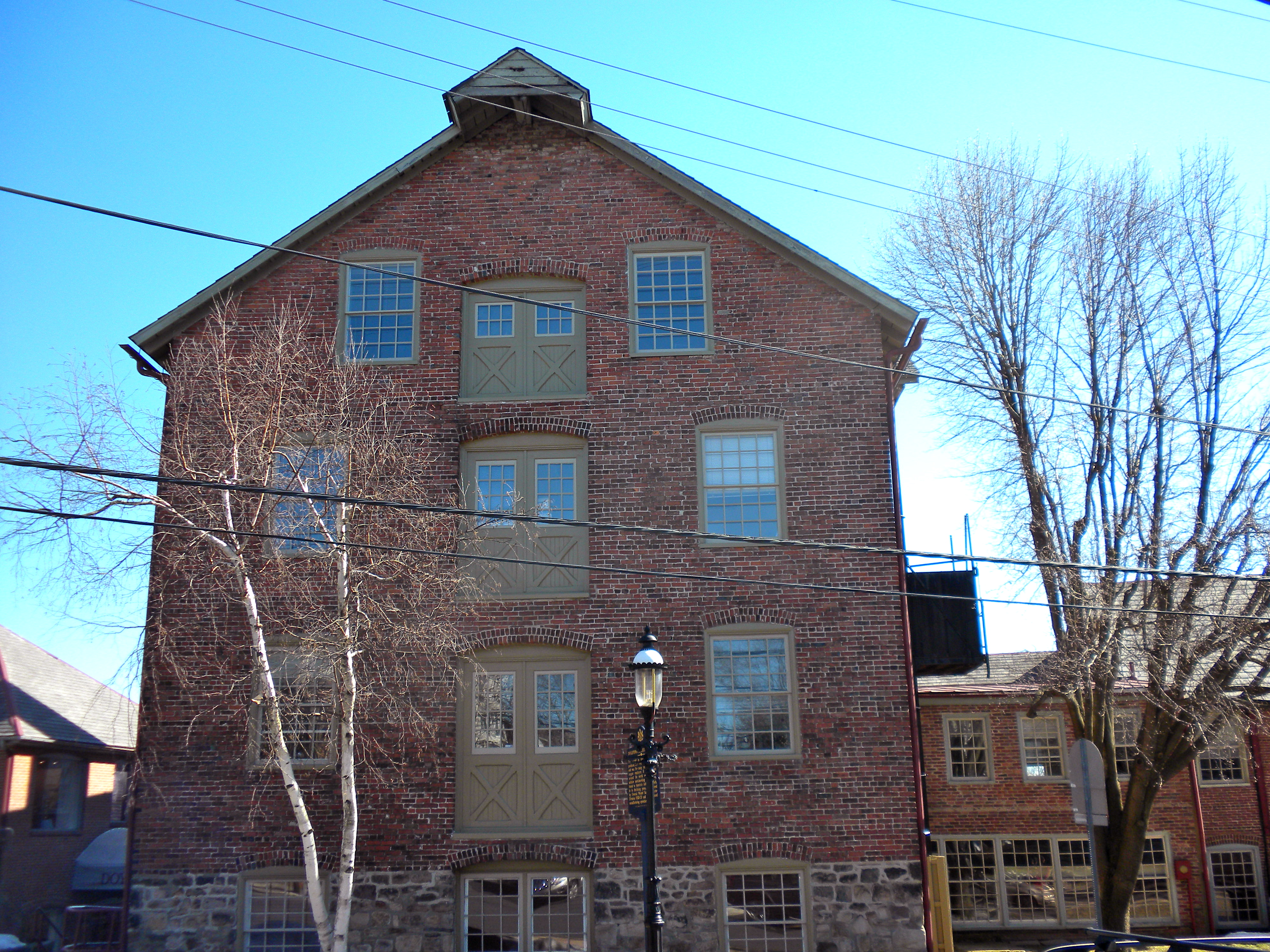 Old Agricultural Machinery manufacturing plant in Doylestown, Bucks County, Pennsylvania, on Ashland Street near Main and near the train station. According to a PHMC sign - at the end of it's manufacturing life in the 1920's it was owned by GM. Part of the Shaw Historic District, on the NRHP since December 17, 1979. The District is bounded by S. Main, Ashland, Bridge, and S. Clinton Streets